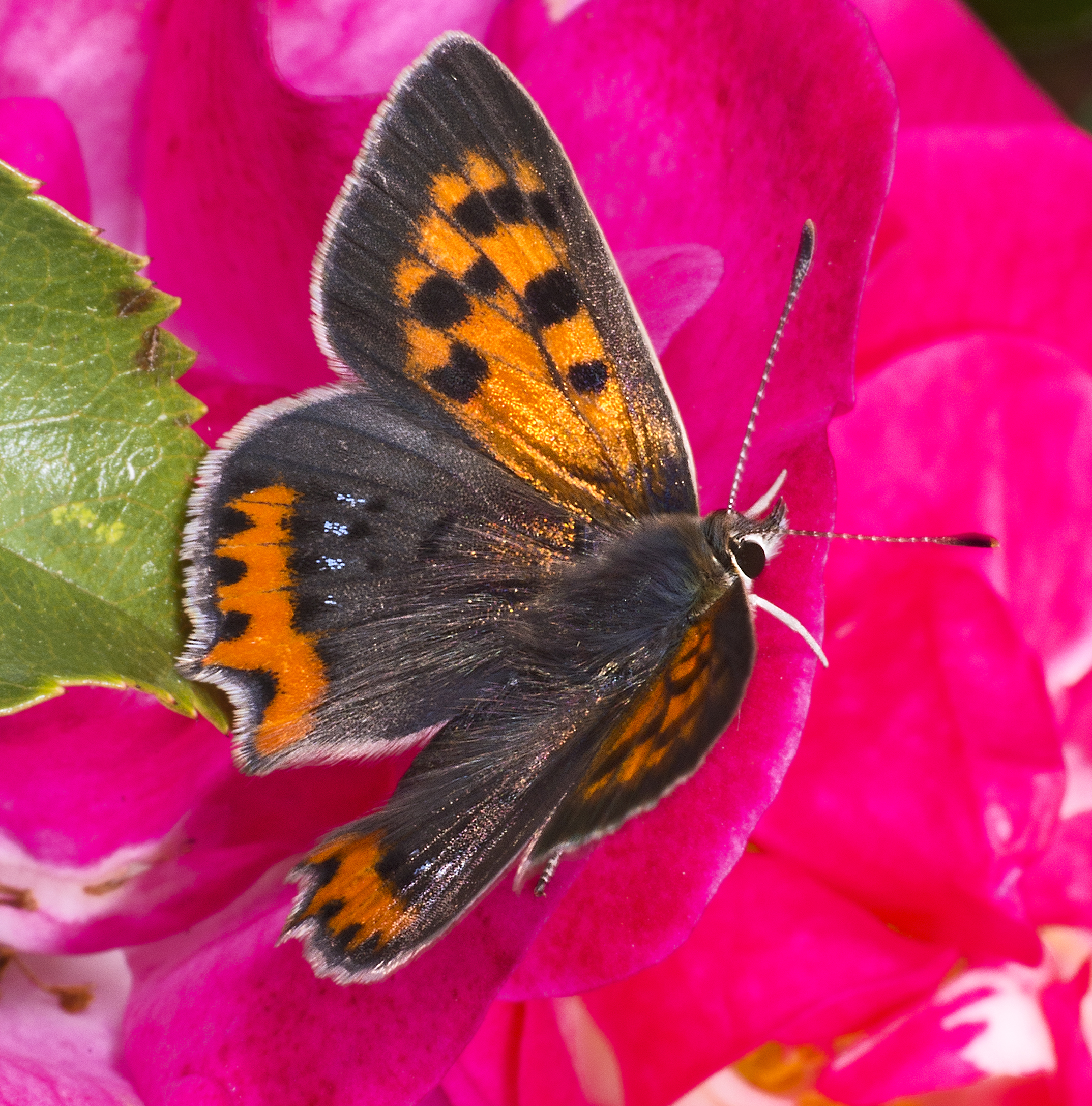 Eyed Hawk-Moth , on a rose